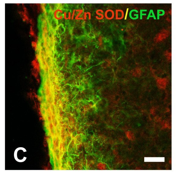 Glial distribution of Cu/Zn SOD immunoreactivity in intact immature brain. Cu/Zn SOD was not observed in the GFAP-expressing astrocyte population of the brain parenchyma (A: cortex, confocal image). However, GFAP-expressing astrocytes showed co-localization with Cu/Zn SOD in the glia limitans (C, confocal image) and in the ventricle walls (B: third ventricle; arrow: tanycyte). Microglial cells and endothelium (arrow), identified with tomato lectin histochemistry, were negative for Cu/Zn SOD (D: cortex; confocal image). Scale bars in A: 40 μm; in B, C and D: 20 μm. Peluffo et al. Journal of Neuroinflammation 2005 2:12